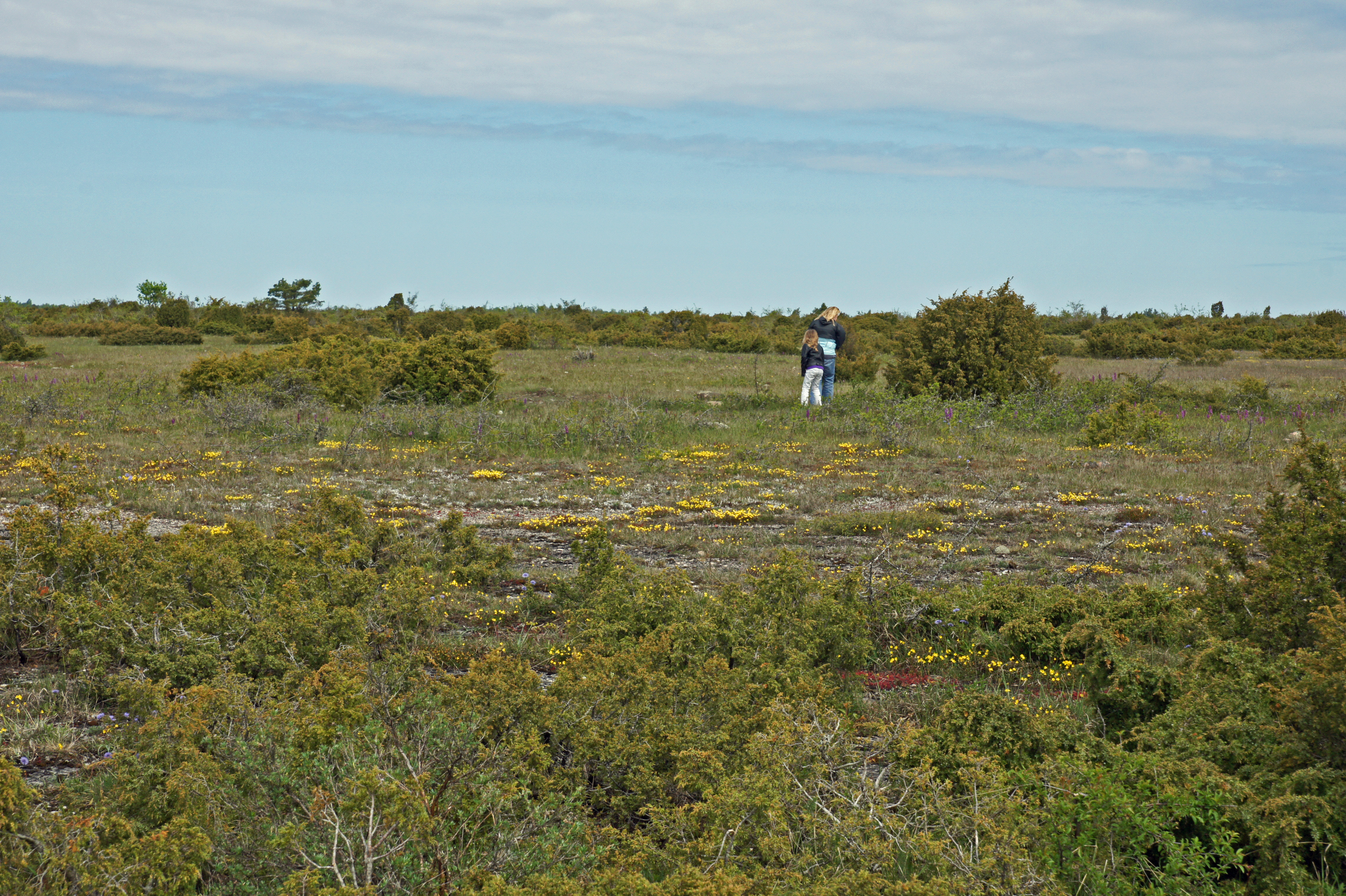 Flora of Stora Alvaret, near Mysinge